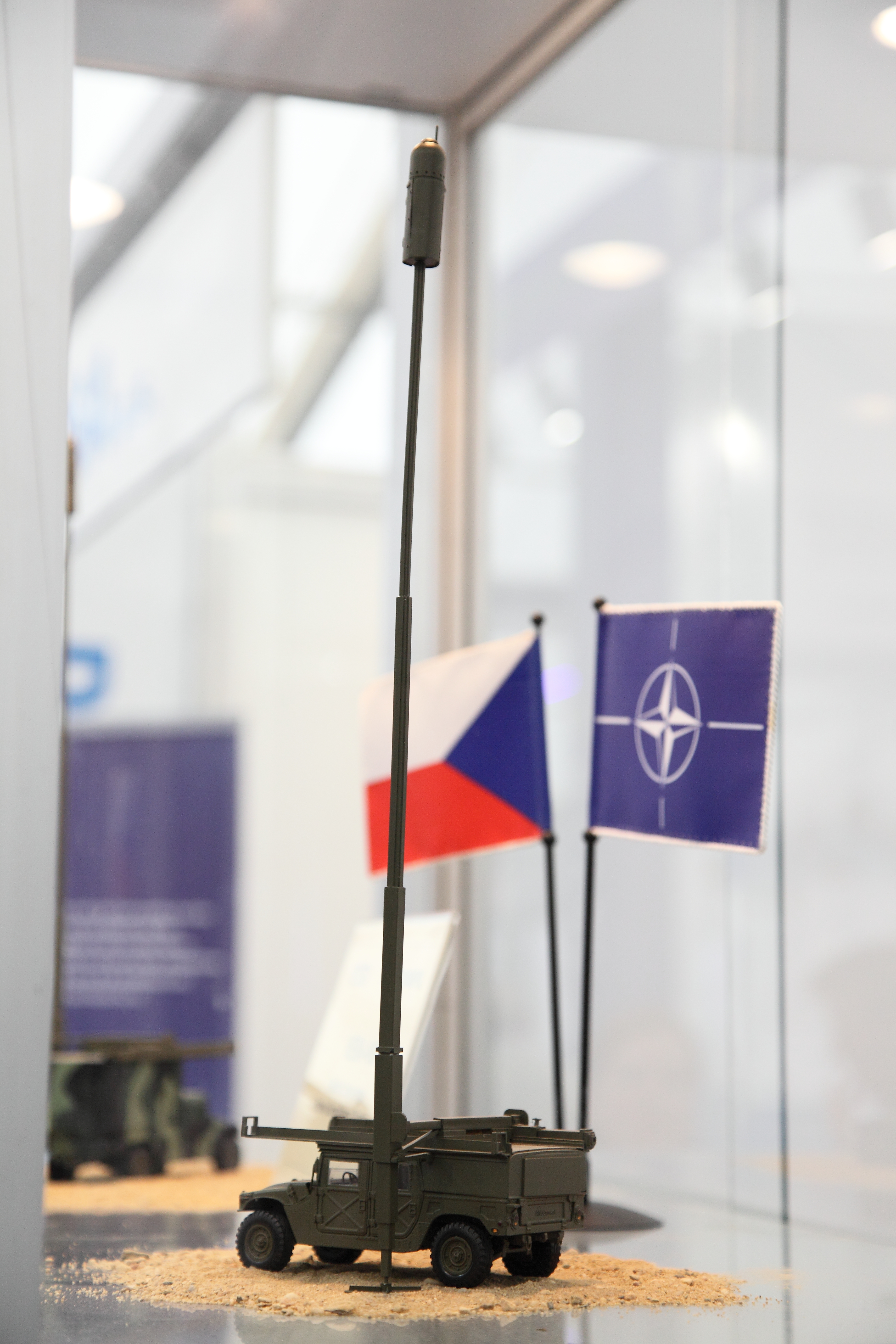 ILA Berlin Air Show 2012 Vera-NG by era: Passive Surveillance System operational specifications frequency range 88 MHz - 18 GHz tracking capacity - 200 real time tracks tracking capability - 3 dimensional antenna unit power consumption (central / side) - 210 / 130 W range - up to 400 km tracking accuracy - radar comparable target library capacita - 10 000 antenna unit overall dimensions - 500 mm x 1720 mm overall weight - 85 kg antenna, 15 kg communication equipment (era; OMNIPOL) VERA-NG Mobile Long-range Passive Surveillance System (scale 1:35)